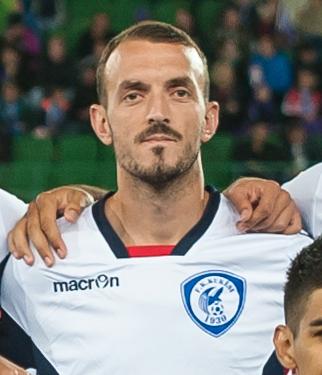 UEFA Europa League - FK Austria Wien vs FK Kukesi, 2016-07-14.